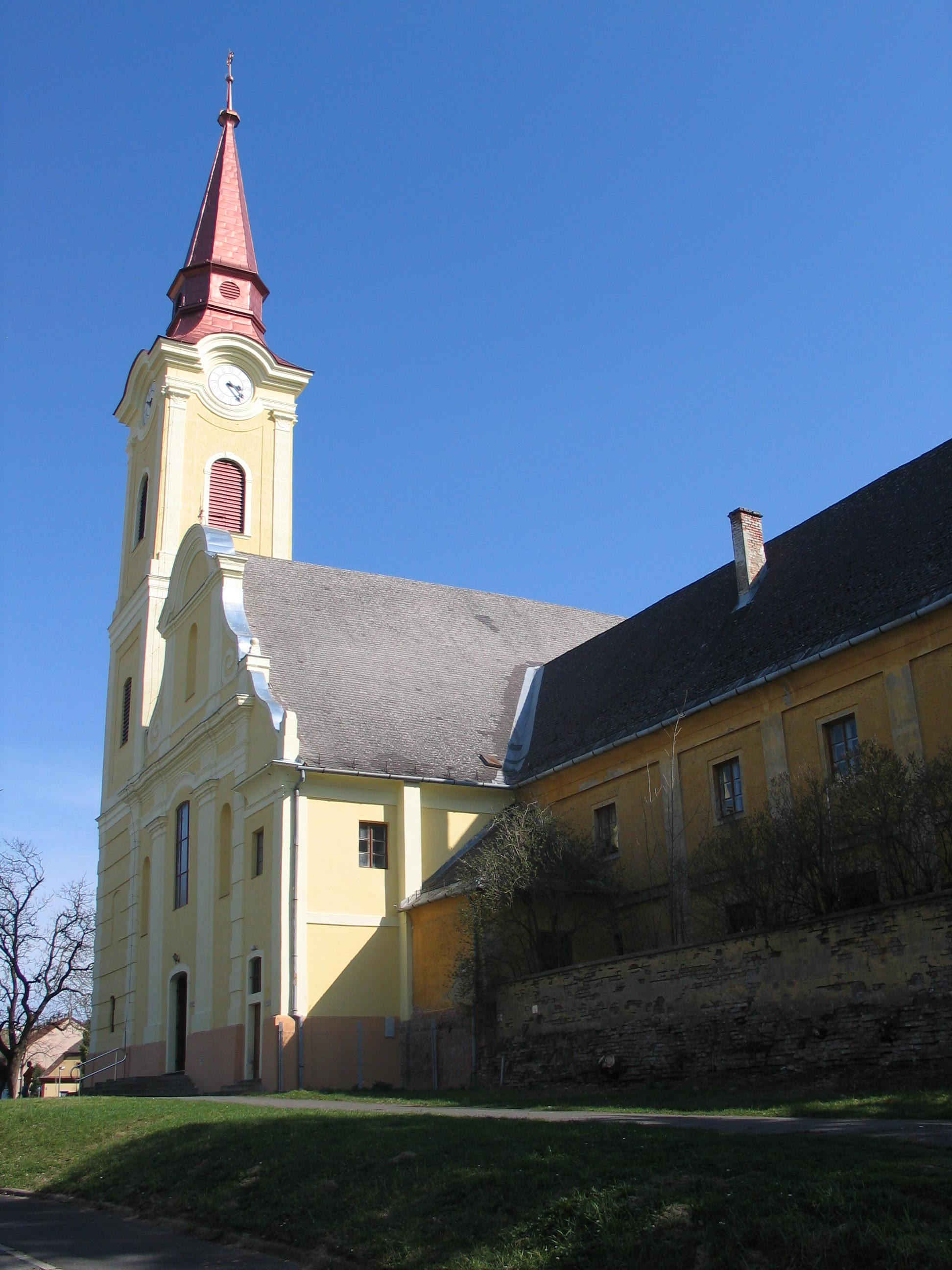 The lower-town church built from the rocks of the ruined fortress, Nagykanizsa, Hungary